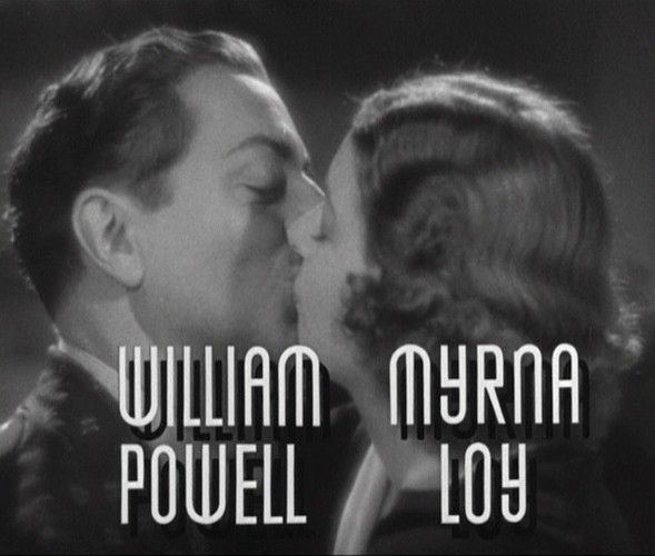 Cropped screenshot of William Powell and Myrna Loy from the trailer for After the Thin Man